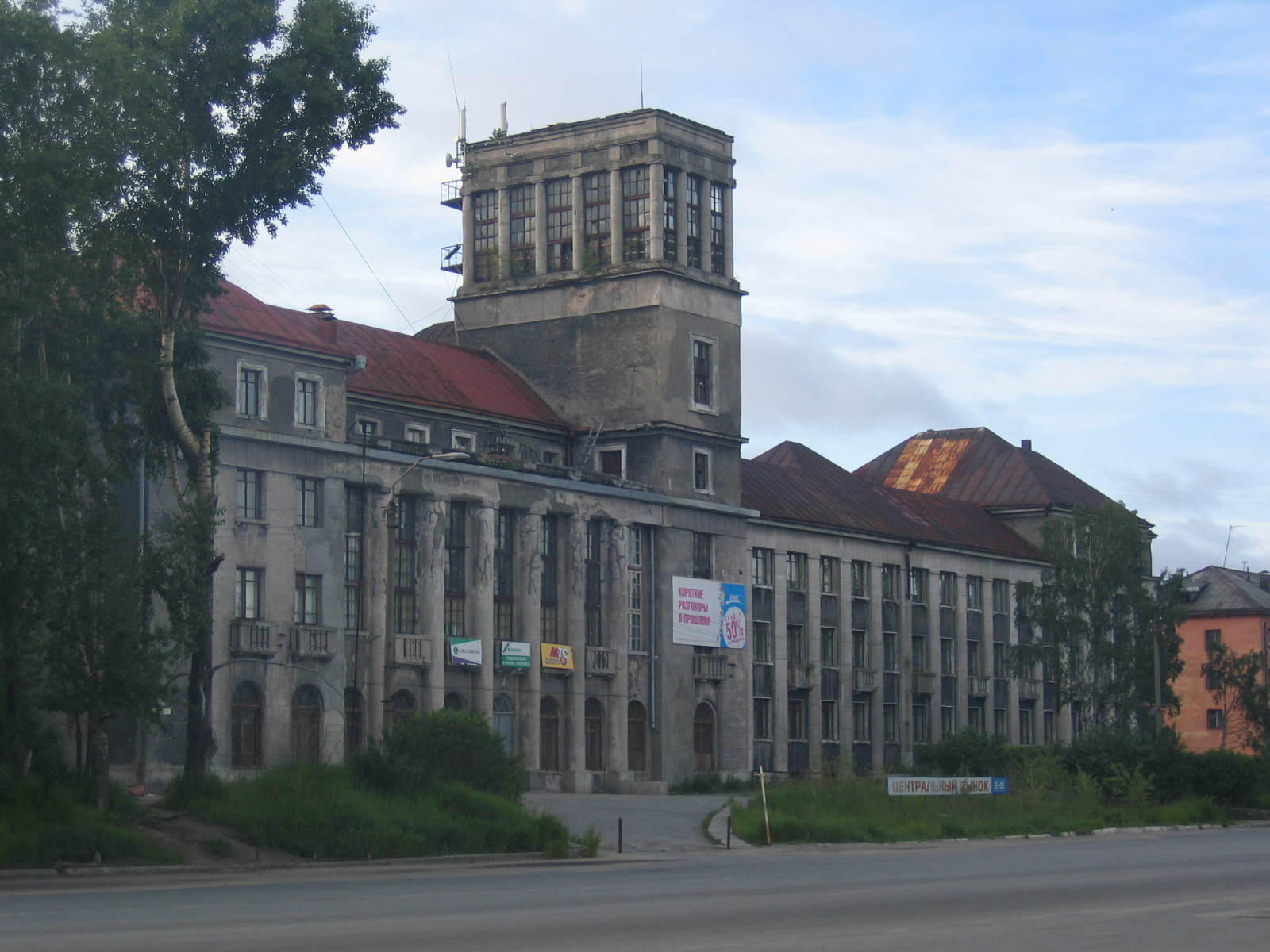 Building of canal administration in Medvezhyegorsk town, Republic of Karelia, Russia